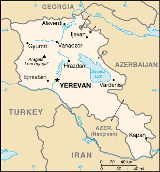 Map of Armenia.